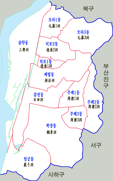 nak → Han : rak 한국어 (조선): 삼낙 에서 삼락 으로 이동